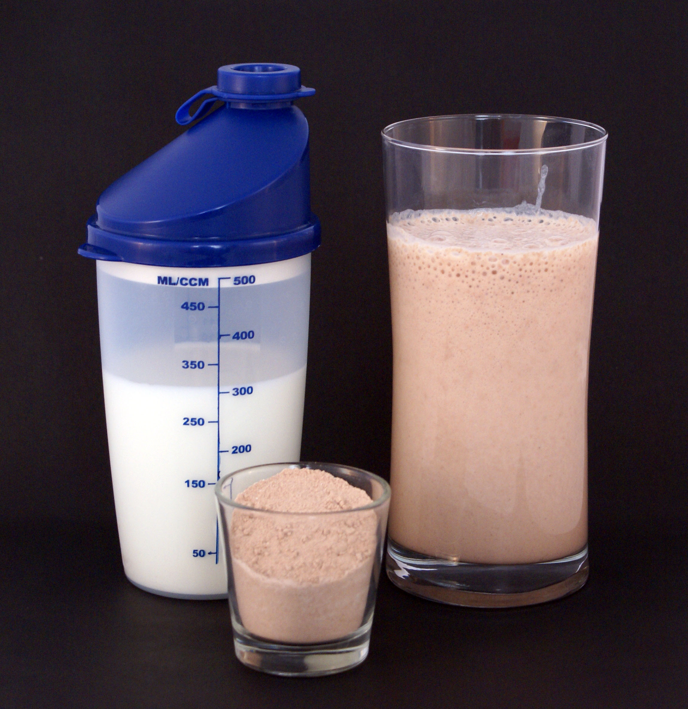 A chocolate-flavored multi-protein nutritional supplement milkshake (right), consisting of circa 25g protein powder (center) and 300ml milk (left).